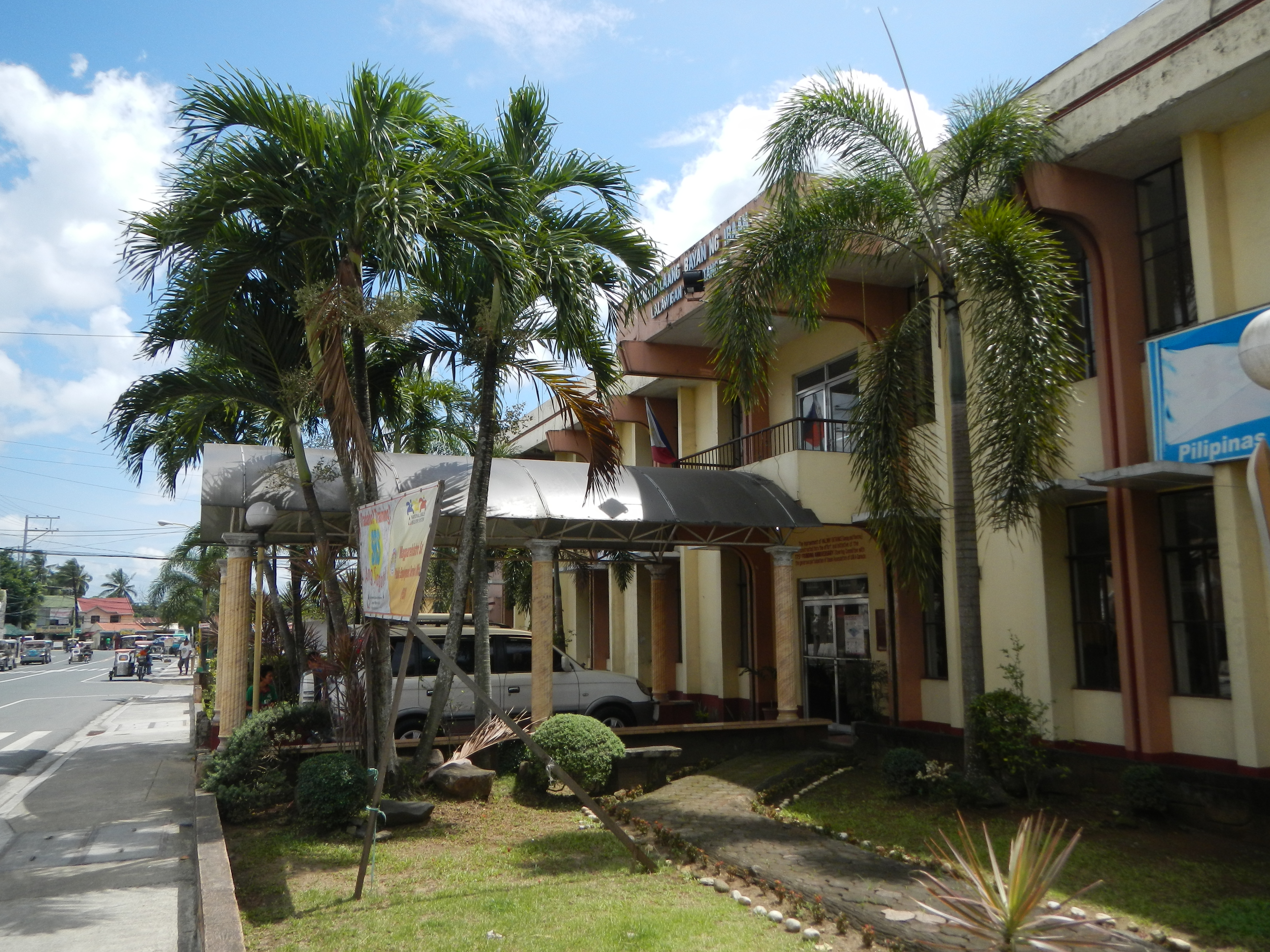 Upload Wizard photos of - J.P. Rizal st. cor. M. Mercado St., Maharlika Highway of Pan-Philippine Highway, National Road, Ibaan Town Hall, Barangay Poblacion, Ibaan, Centro, downtown and in front of Town Hall - Ibaan, Batangas [1] (a fourth class municipality in the Province of Batangas, Philippines; latest census, population of 45,790 people in 10,166 households; has a land area of 6,796 hectares or 26.24 sq mi at an altitude of 124 metres or 407 ft above sea level).